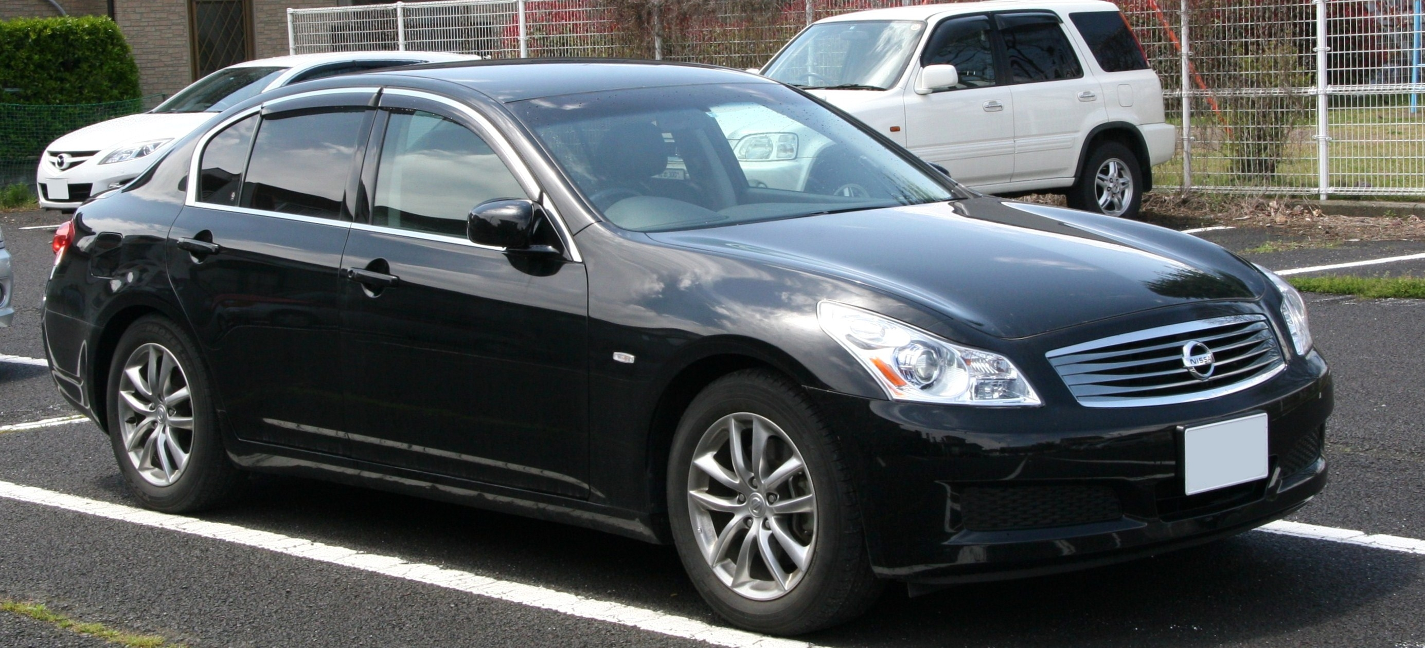 NISSAN SKYLINE SEDAN